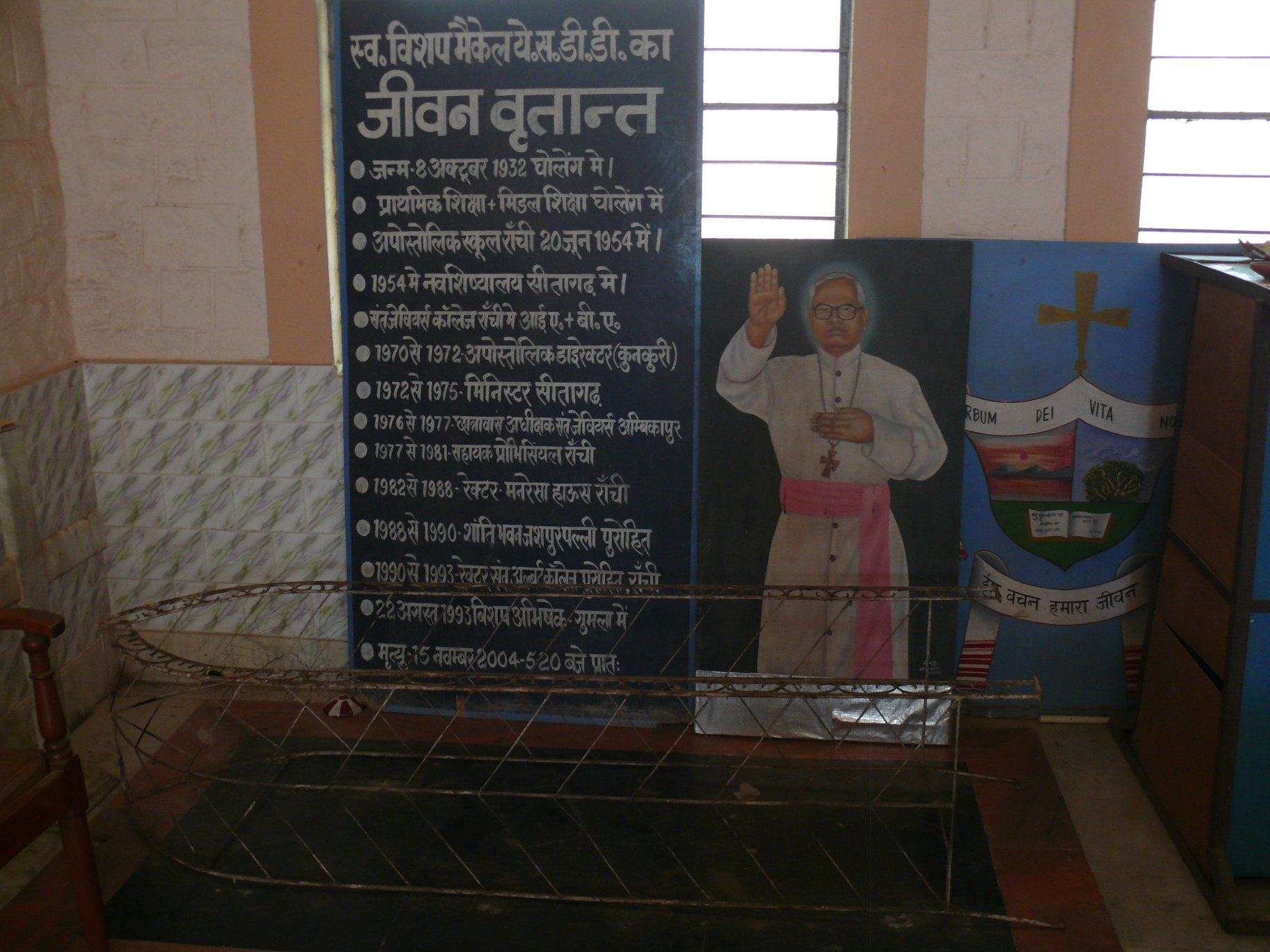 Saint-Patrick's cathedral of Gumla (Jharkhand, India).